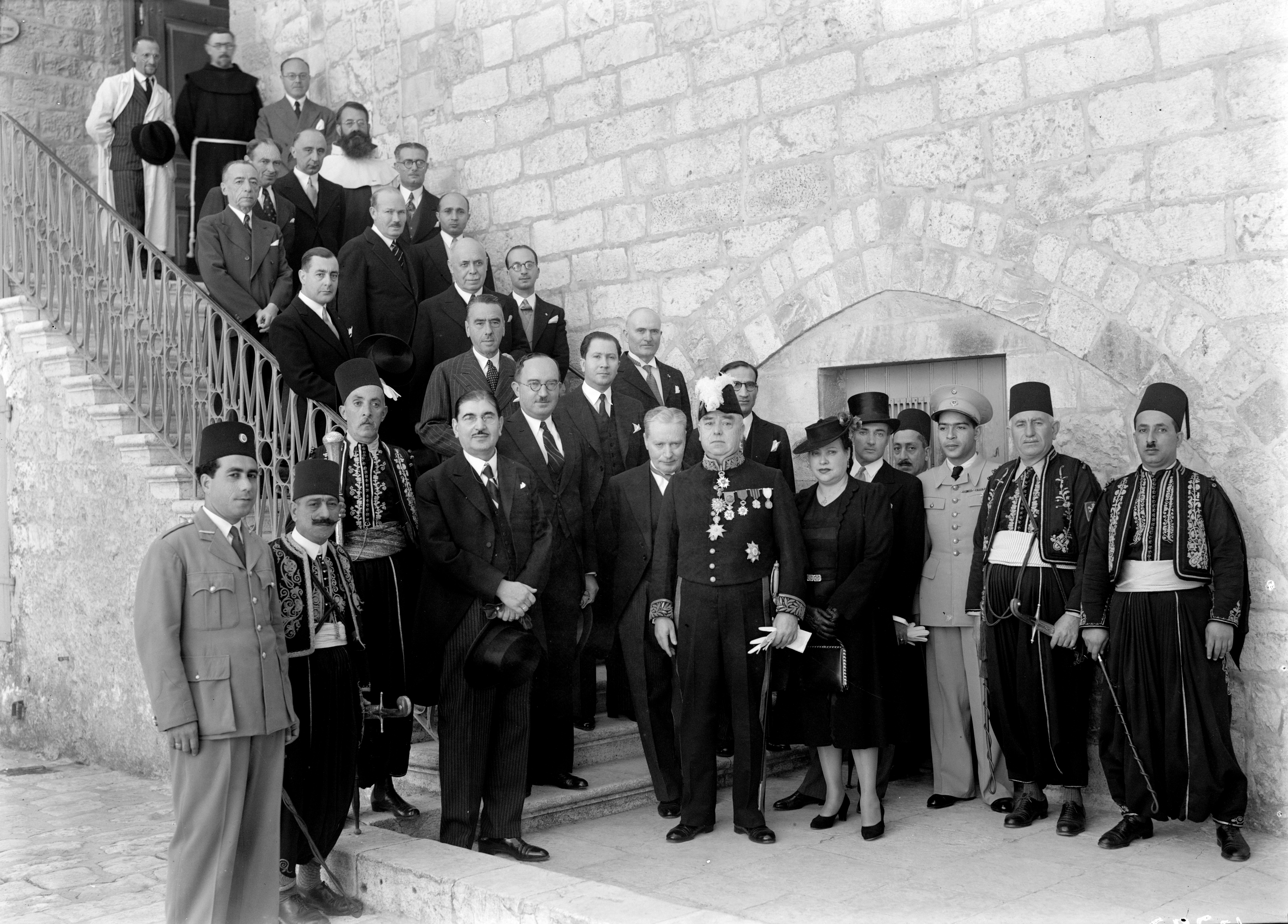 Belgian Consul Gen. & other consuls on St. Sauver on Belgian king's birthday.